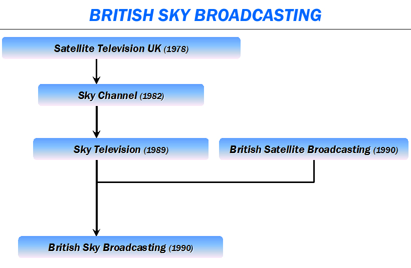 Timeline of British Sky Broadcasting.